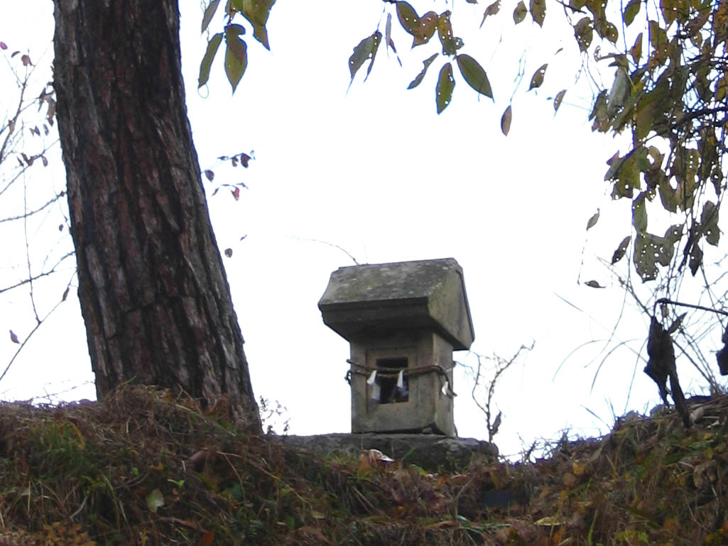 Yomeike (嫁殺しの池) is a pond in Nagano city, Nagano prefecture, Japan.